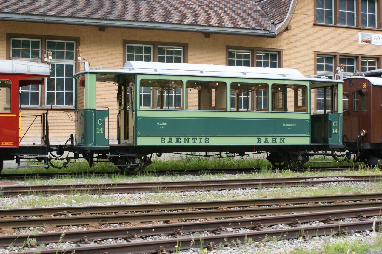 Restored C 14 of the Säntisbahn (now part of the Appenzeller Bahnen) in front of the Museum Appenzeller Bahnen at Wasserauen railway station.